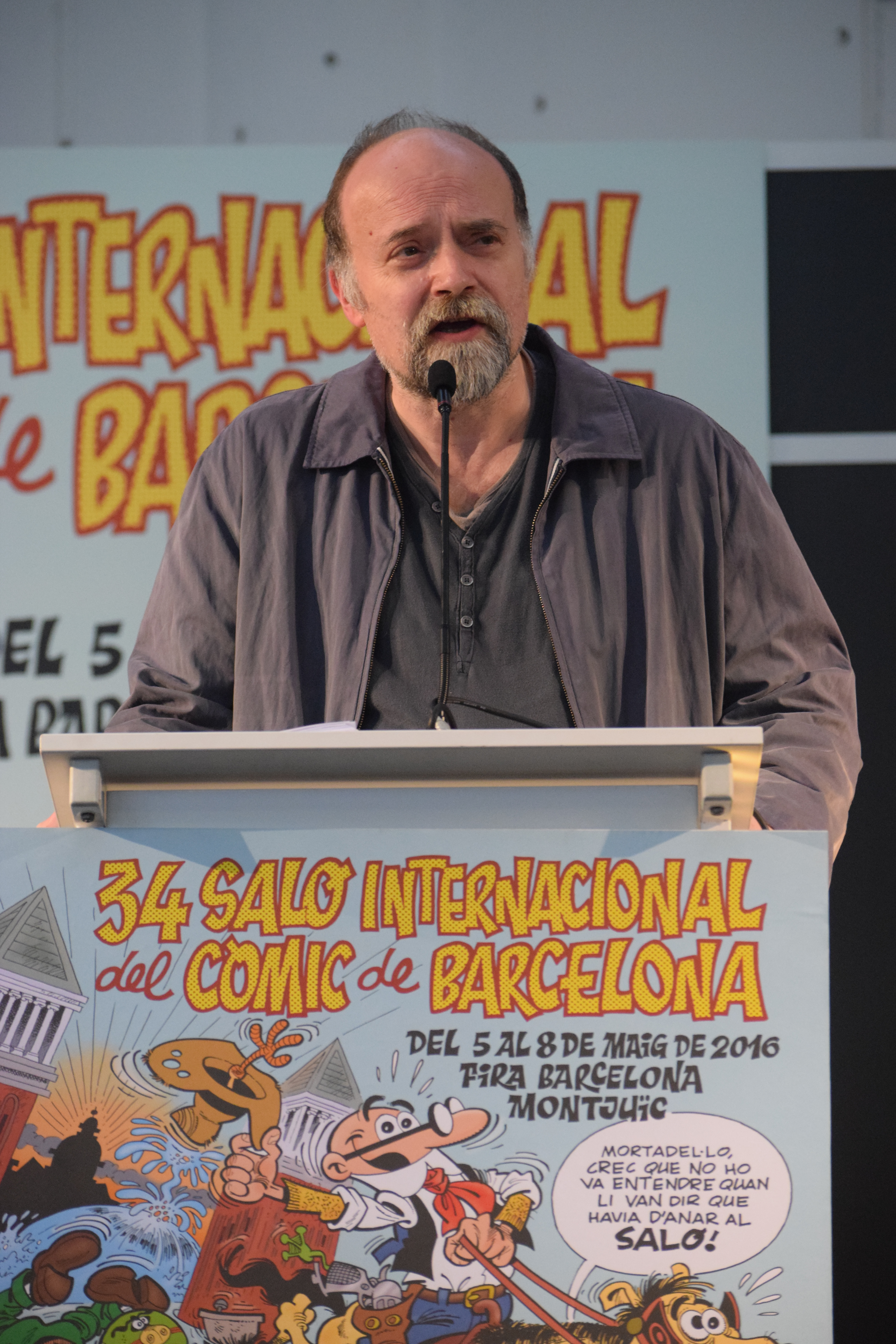 The editor and comic critic Antoni Guiral making the opening speech of the awards ceremony of the Barcelona International Comics Convention (2016).